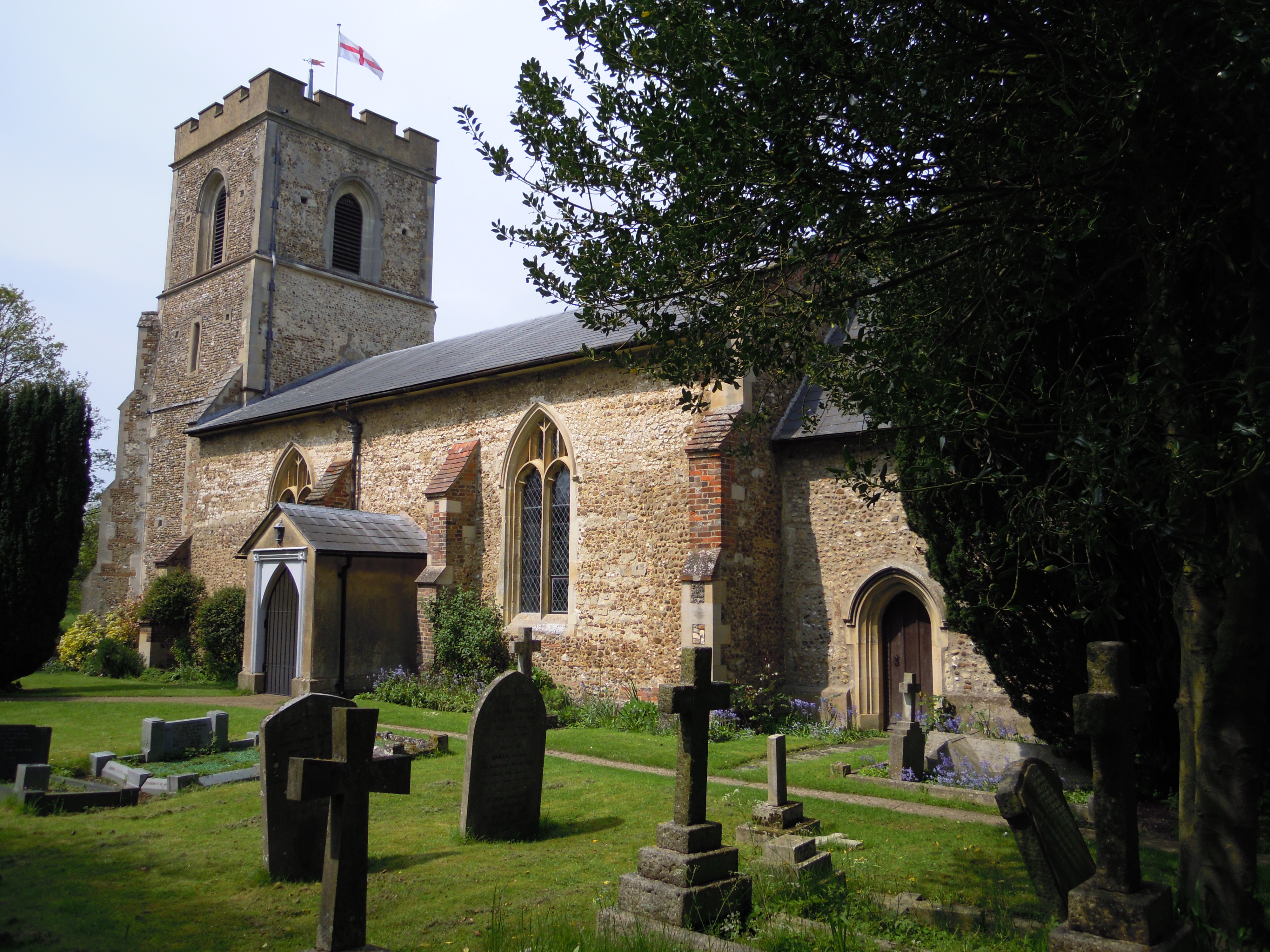 The exterior of Church of St Nicholas in Norton. Listed Grade II. Listing no 1174104